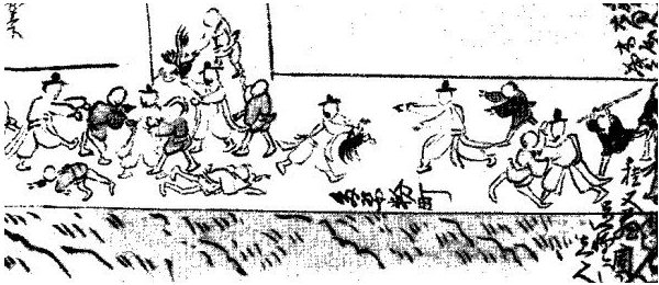 A picture of an embassy sent by Korean Yi Dynasty to Japanese Tokugawa shogunate in 1748. 朝鮮通信使（조선 통신사）の一行が町人が飼っている鶏を盗み逃げようとしたところ喧嘩になった様を描いている絵。